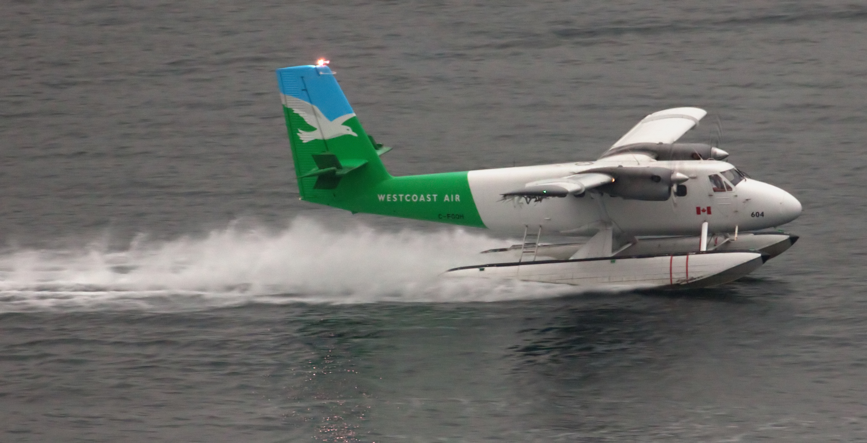 De Havilland Canada DHC-6-100 Twin Otter C-FGQH